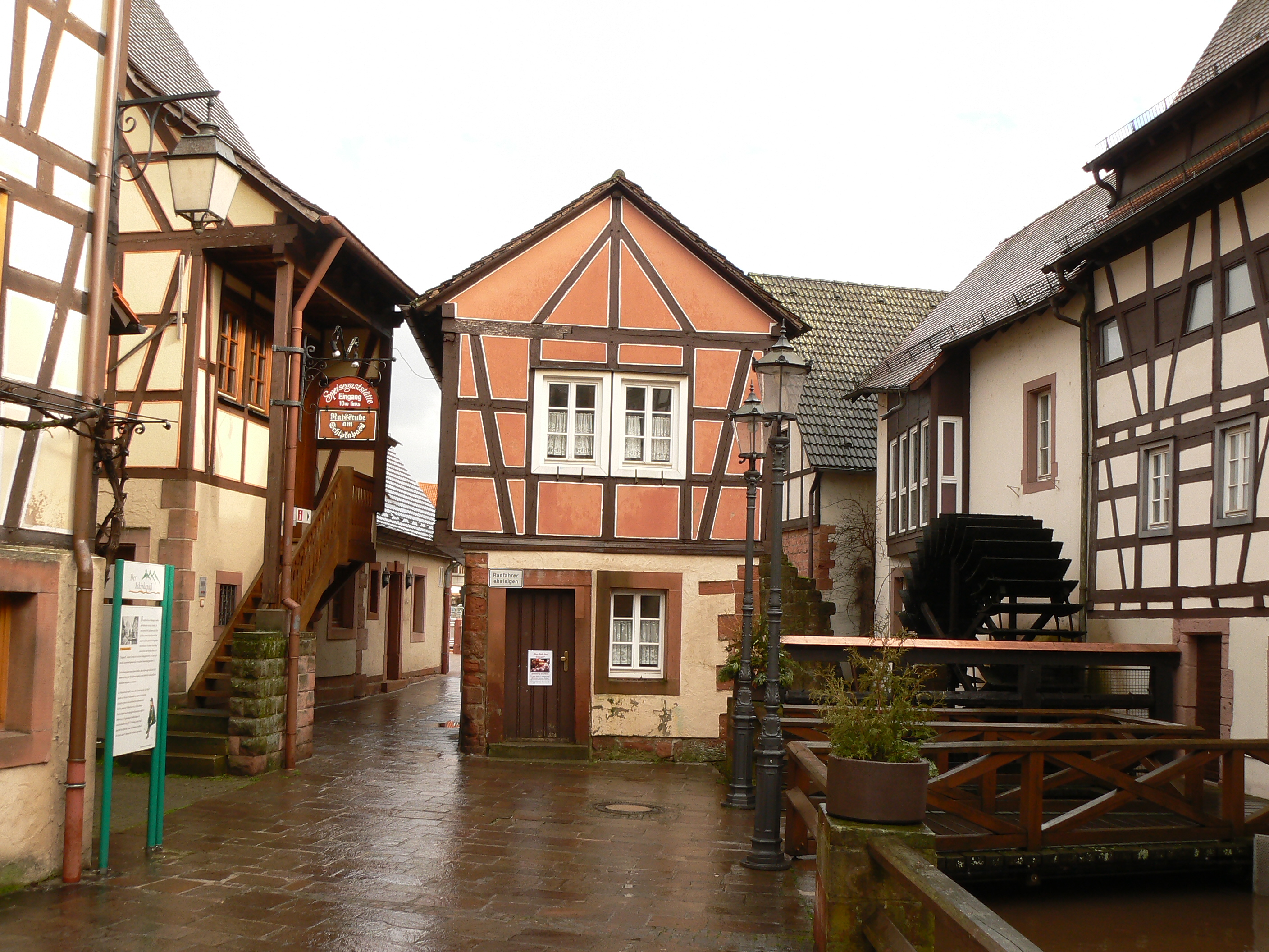 pd-self